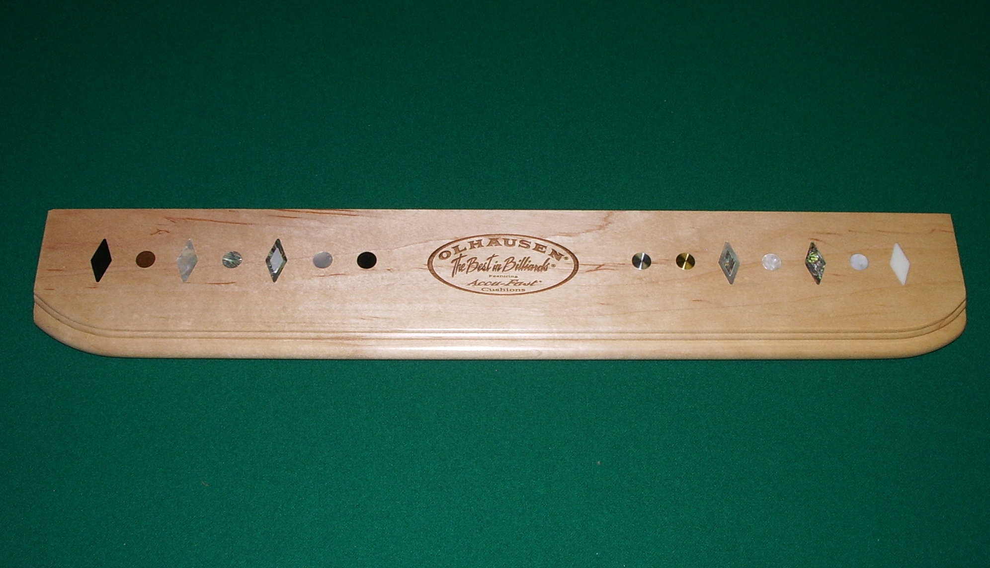 A manufacturer's sample board showing various styles of diamond inlays for billiard tables.